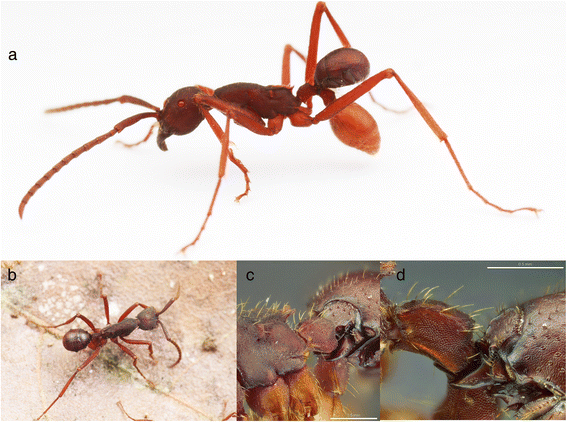 a Lateral and b dorsal view of Eciton mexicanum s. str. workers with N. kronaueri attached between the ants’ petiole and postpetiole. c, d Close-ups showing N. kronaueri grasping the trunk between petiole and postpetiole with its mandibles.